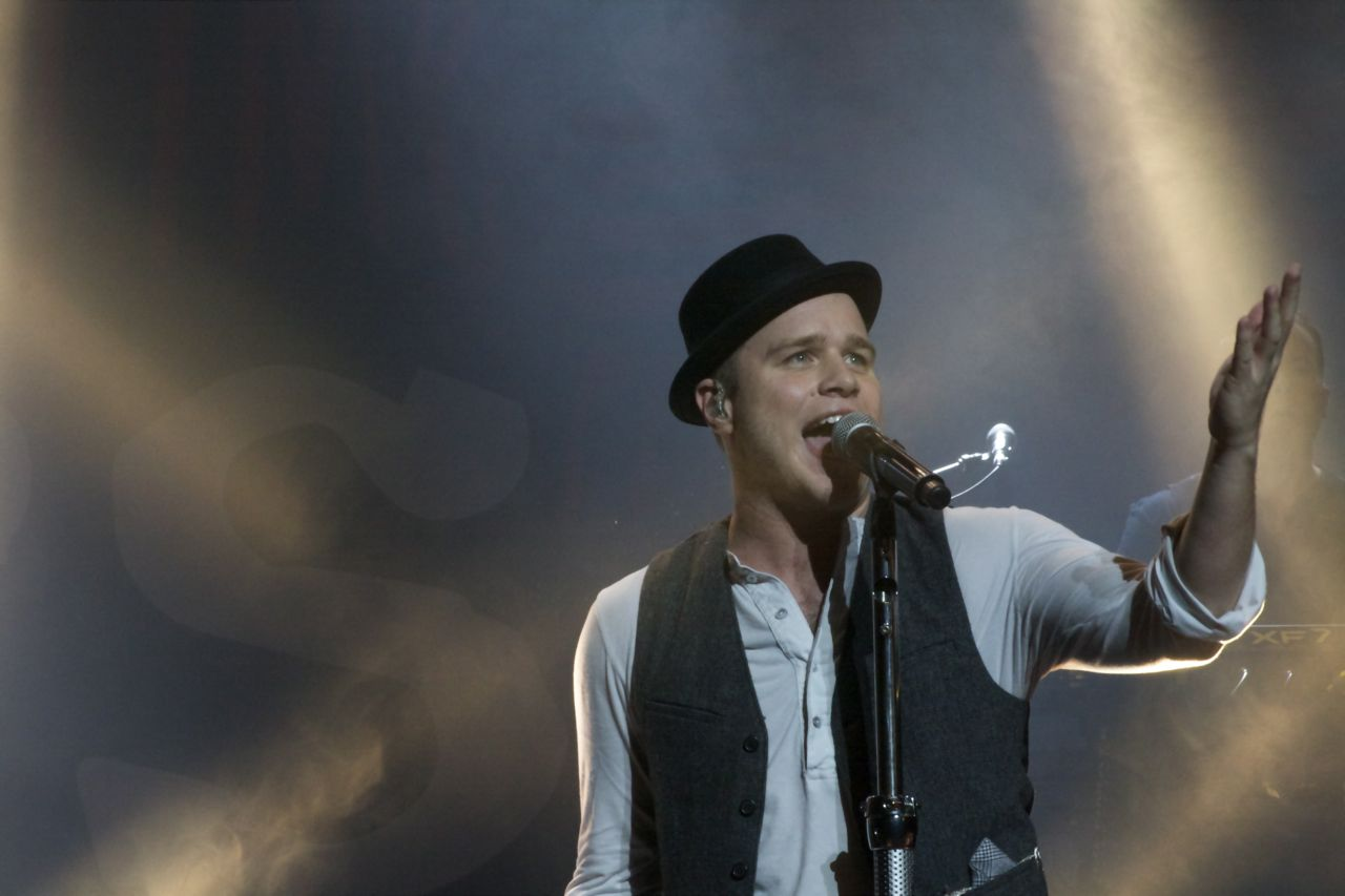 Olly Murs giving a concert on Auckland, New Zealand, the 7 of november 2013.